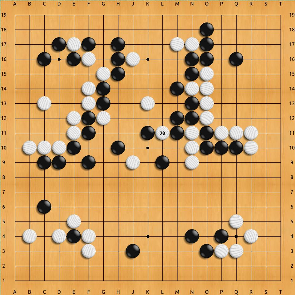 screenshot of qgo showing divine move W78. taken from SGF found at